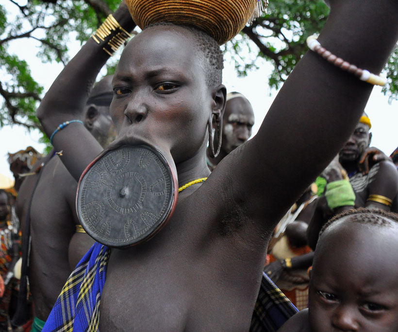 Mago National Park, Ethiopia. Lip plate is made from pottery.